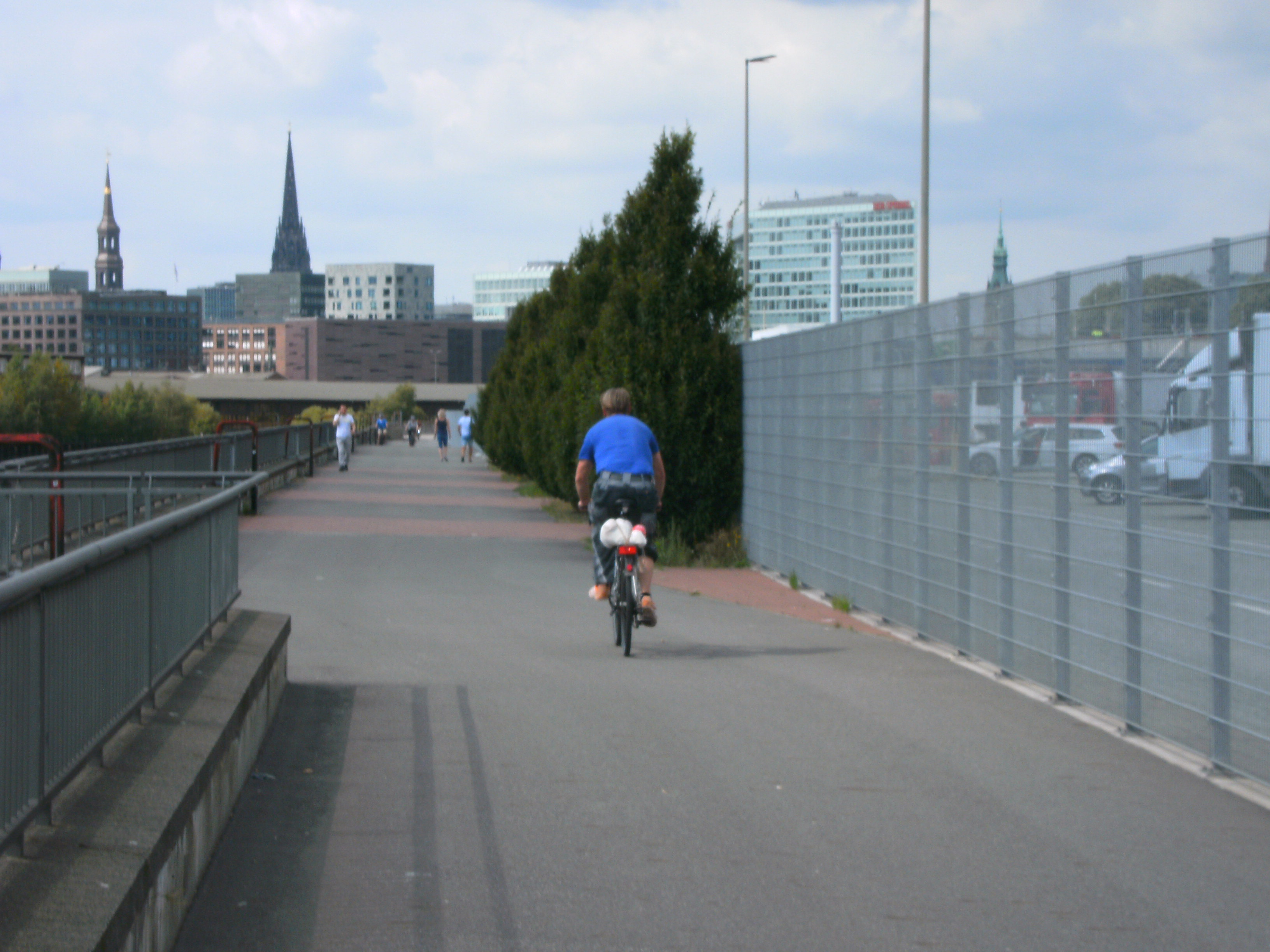 Hamburg, Germany. Cycling route along Oberhafen and Großmarkt. View to Oberhafenbrücke and city.